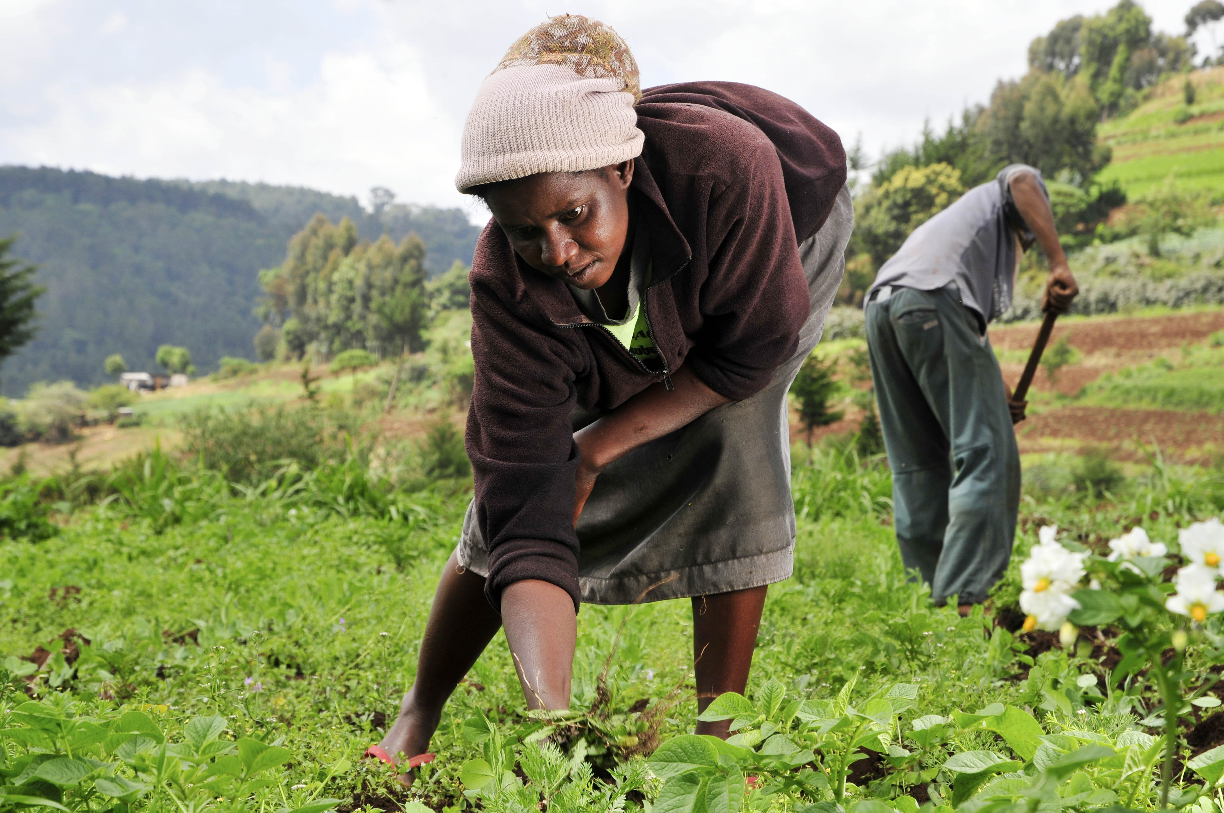 A woman on a farm in the Mount Kenya region.